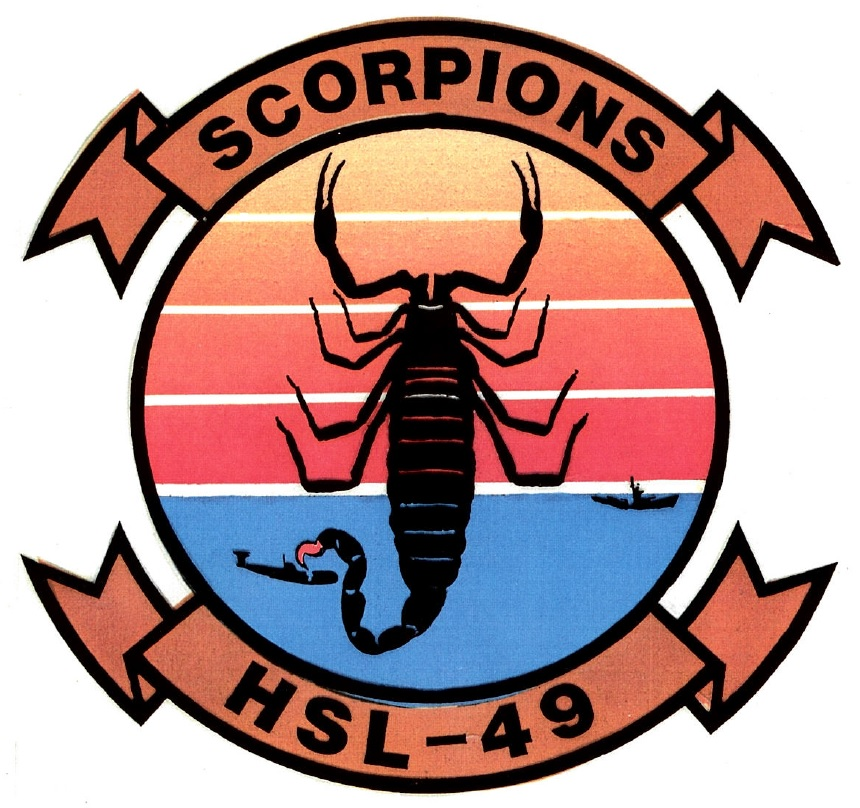 Original logo, emblem, and patch for HSL-49. HSL-49 is a U.S. Navy helicopter squadron homeported in San Diego, California.